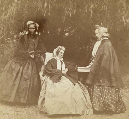 Mary Ann Martin Caroline Harriet Abraham and Sarah Selwyn - bish wives from nz by James Coutts Crawford